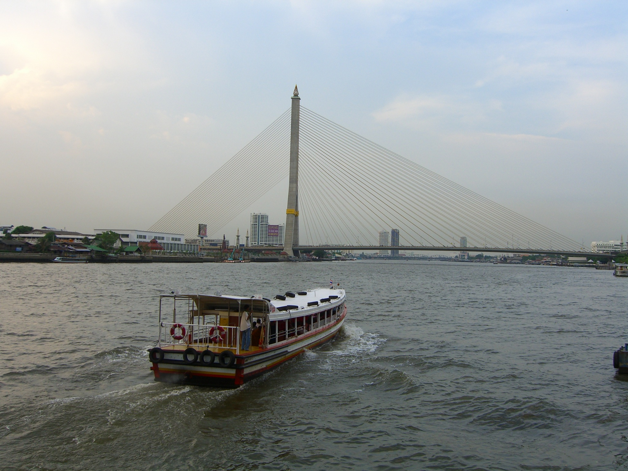 Rama VIII Bridge in Bangkok